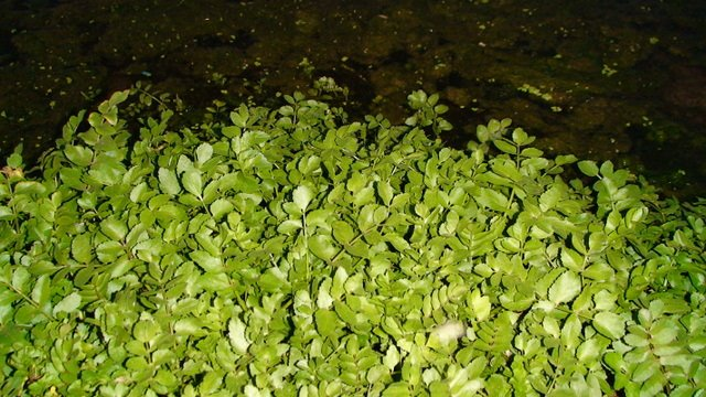 نباتات برية سورية تؤكل